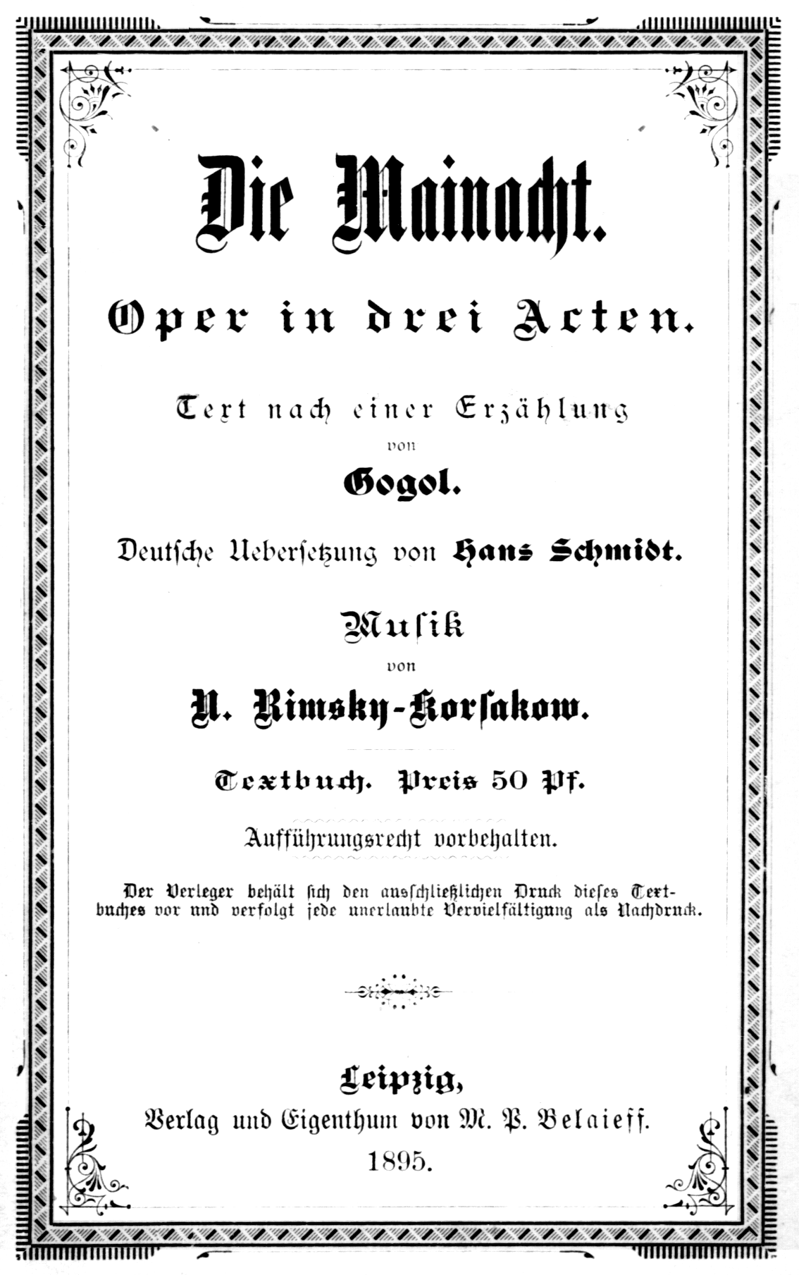 Rimsky-Korsakov - May Night - title page of the german libretto by Hans Schmidt